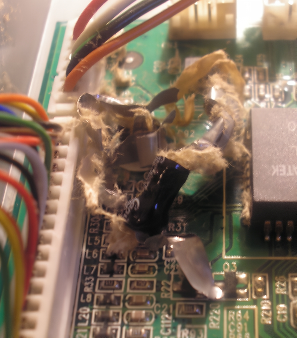 A failed electrolytic from a broken LCD monitor. The power supply failed and overheated the cap causing explosion.